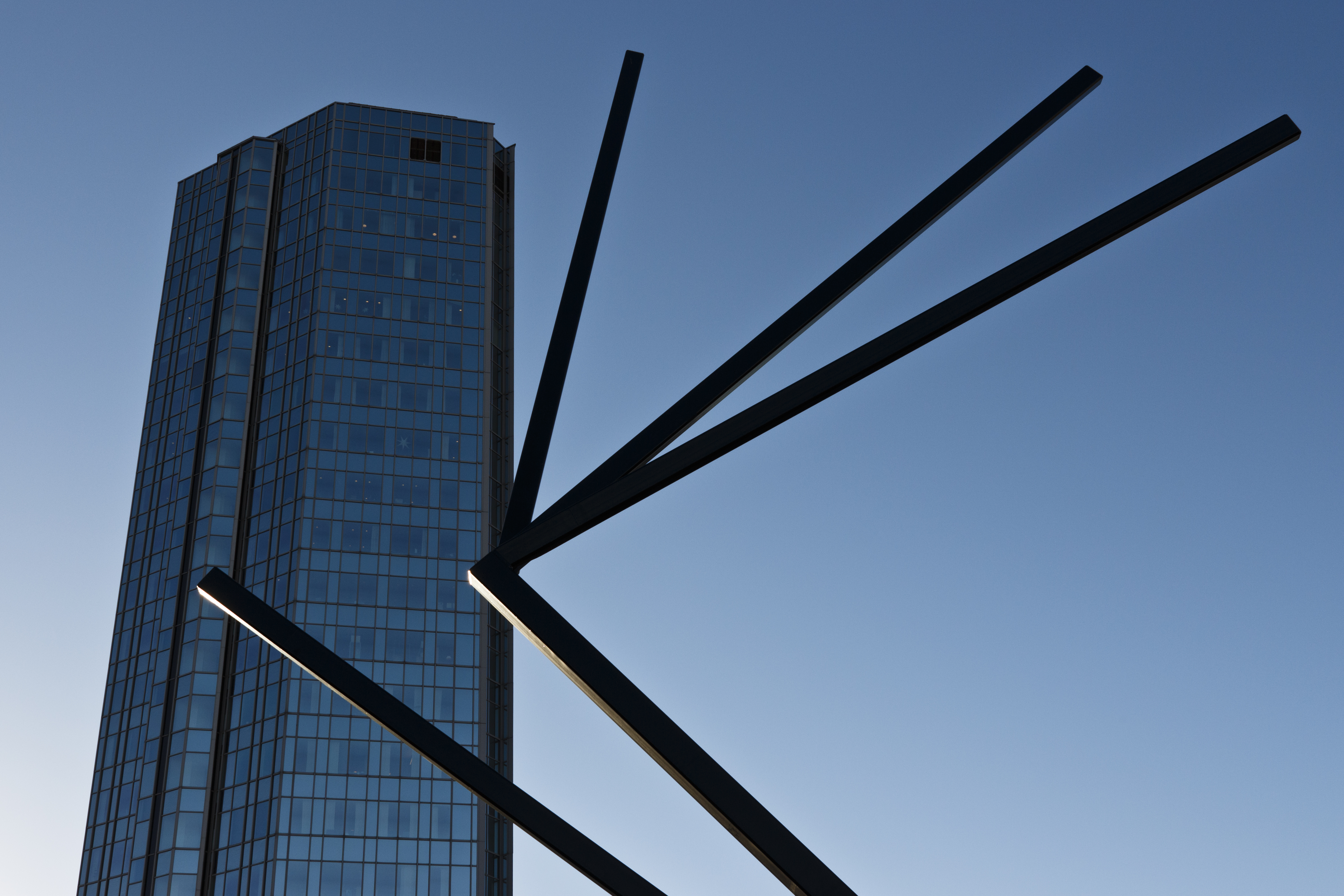 Halmstad University